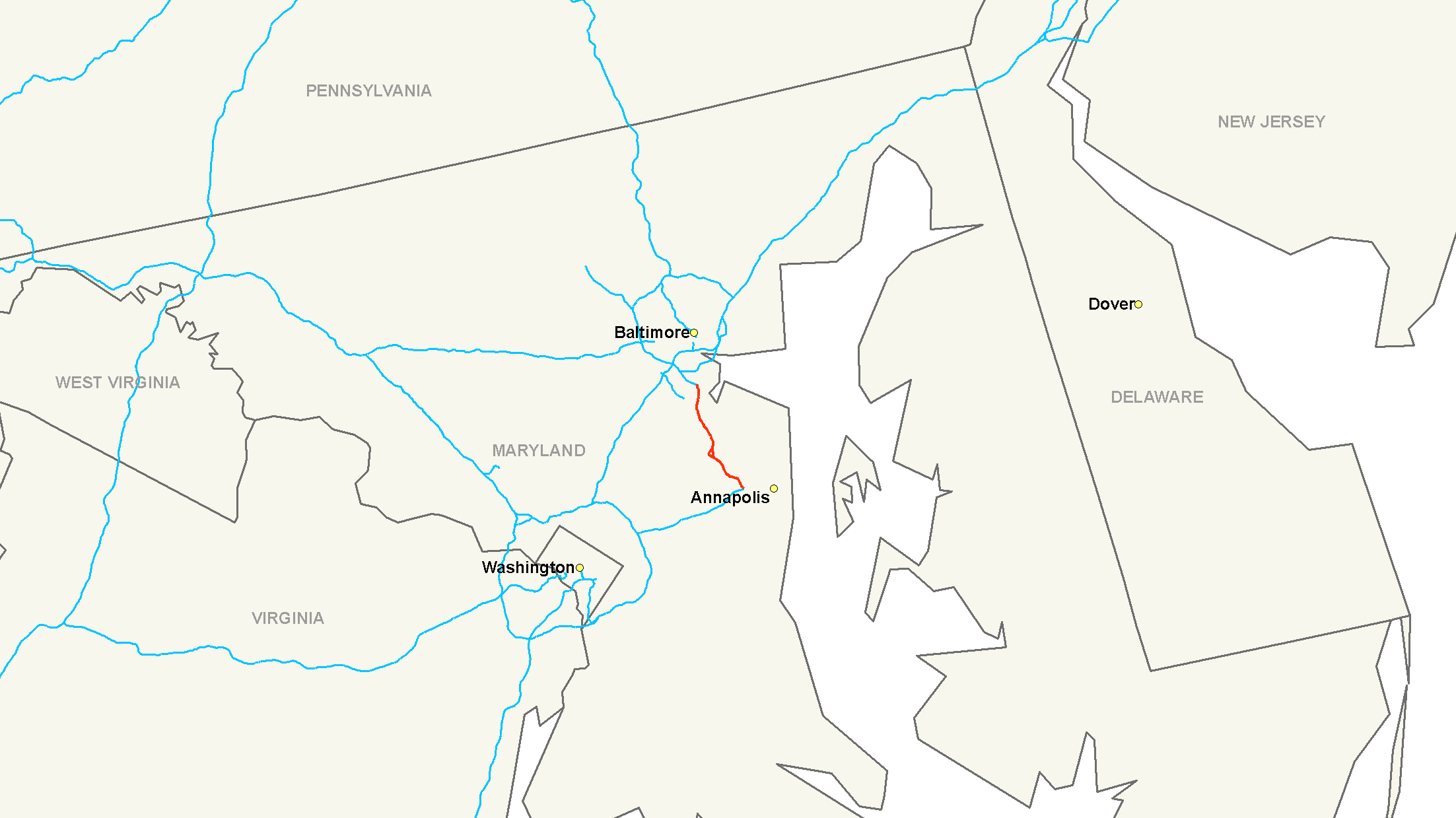 Map of Interstate 97